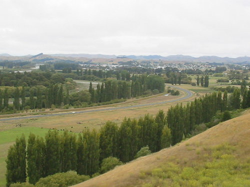 View of Waipukurau, North Island, New Zealand